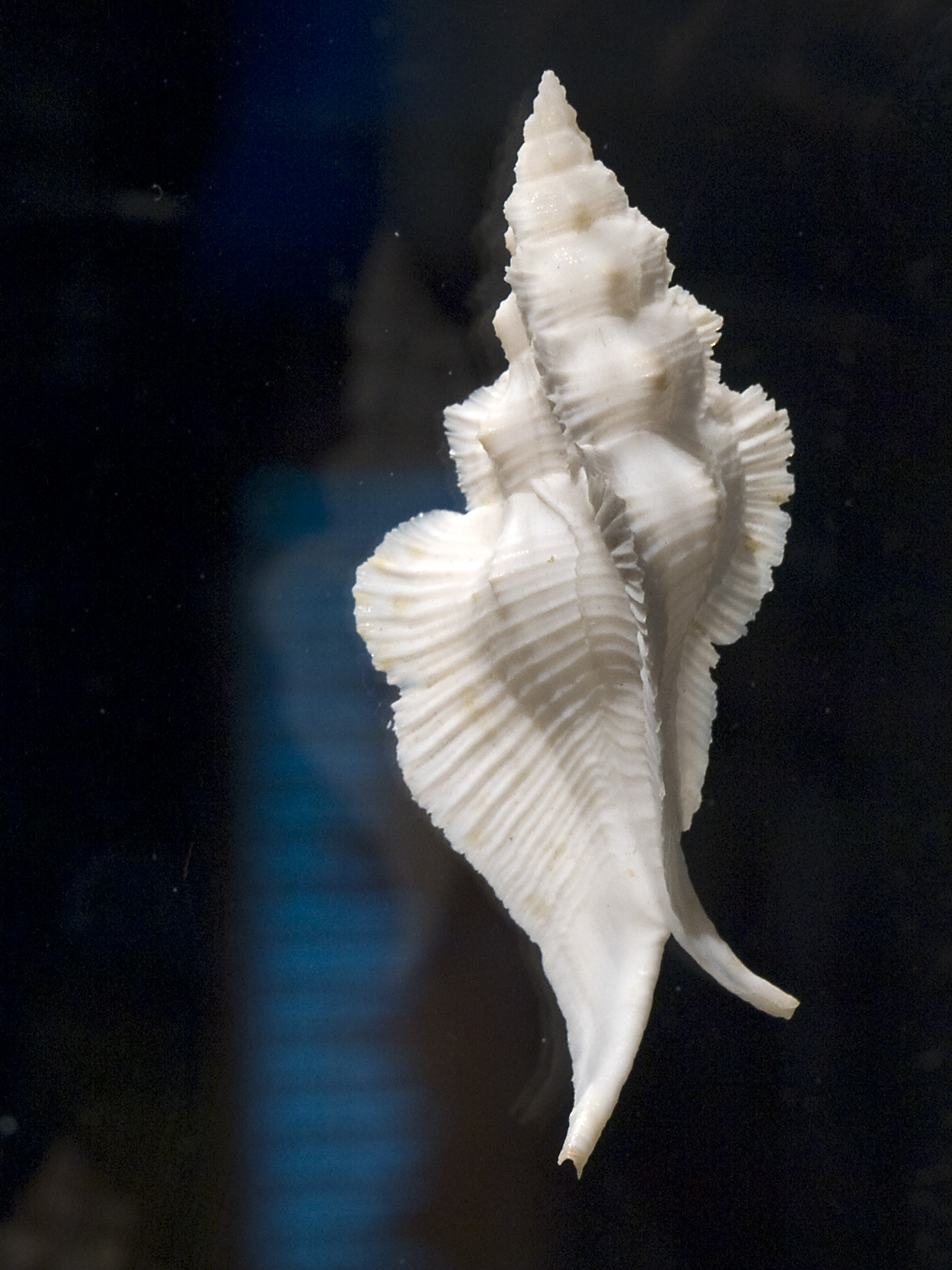 20713 Pterynotus alatus (syn. Pterynotus pinnatus) not: Conus dusaveli (Du Savel’s Cone) Philippines HMNS 20638 Wikipedia Loves Art at the Houston Museum of Natural Science This photo of item # 20713 at the Houston Museum of Natural Science was contributed under the team name "Assignment_Houston_One" as part of the Wikipedia Loves Art project in February 2009. Houston Museum of Natural Science The original photograph on Flickr was taken by skarsol—please add a comment to the original Flickr page whenever a use has been made on Wikipedia or another project. Project galleries on Flickr: this institution, this team